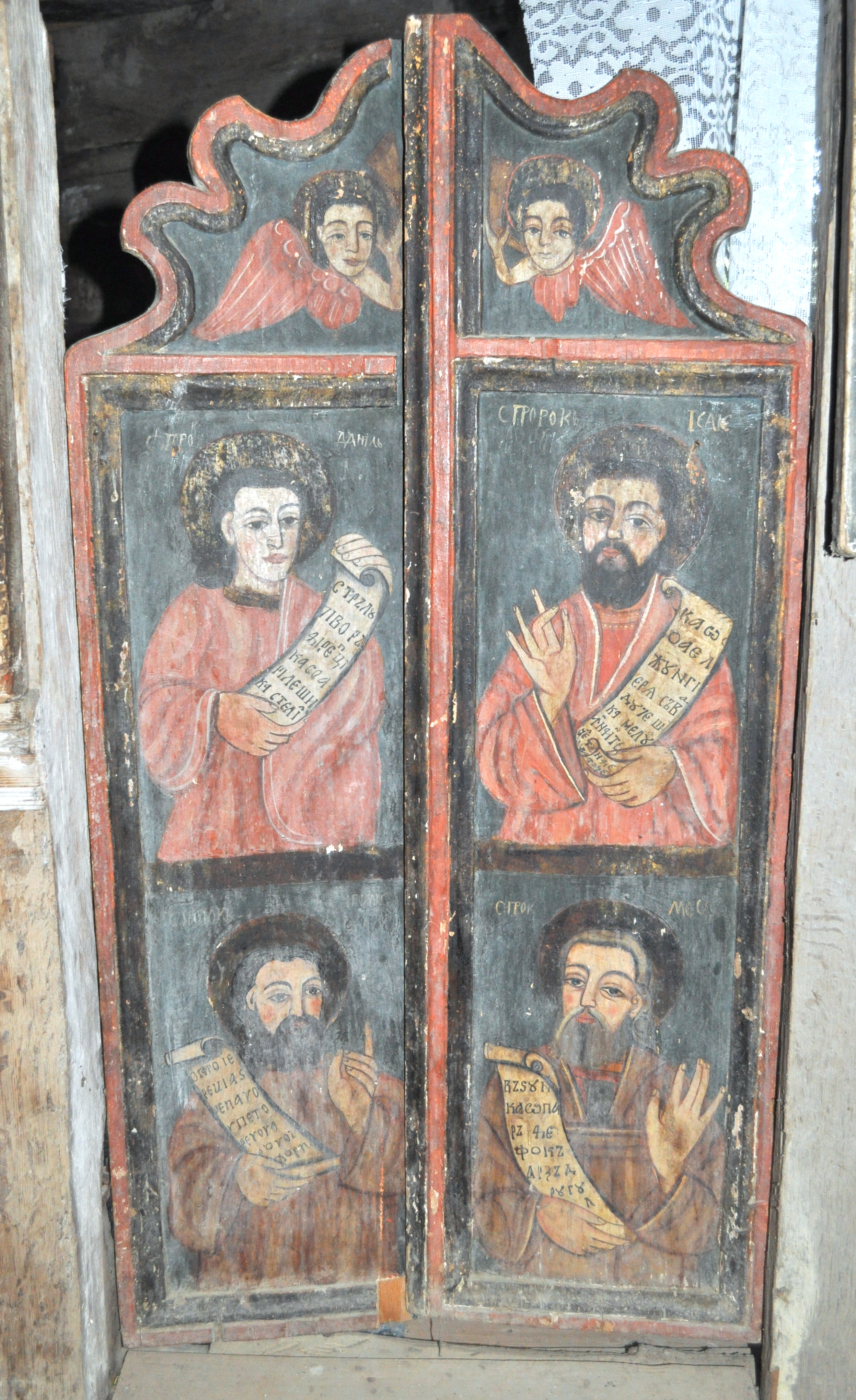 Wooden church in Strugureni, Bistrița-Năsăud countyRomână: Biserica de lemn din Strugureni